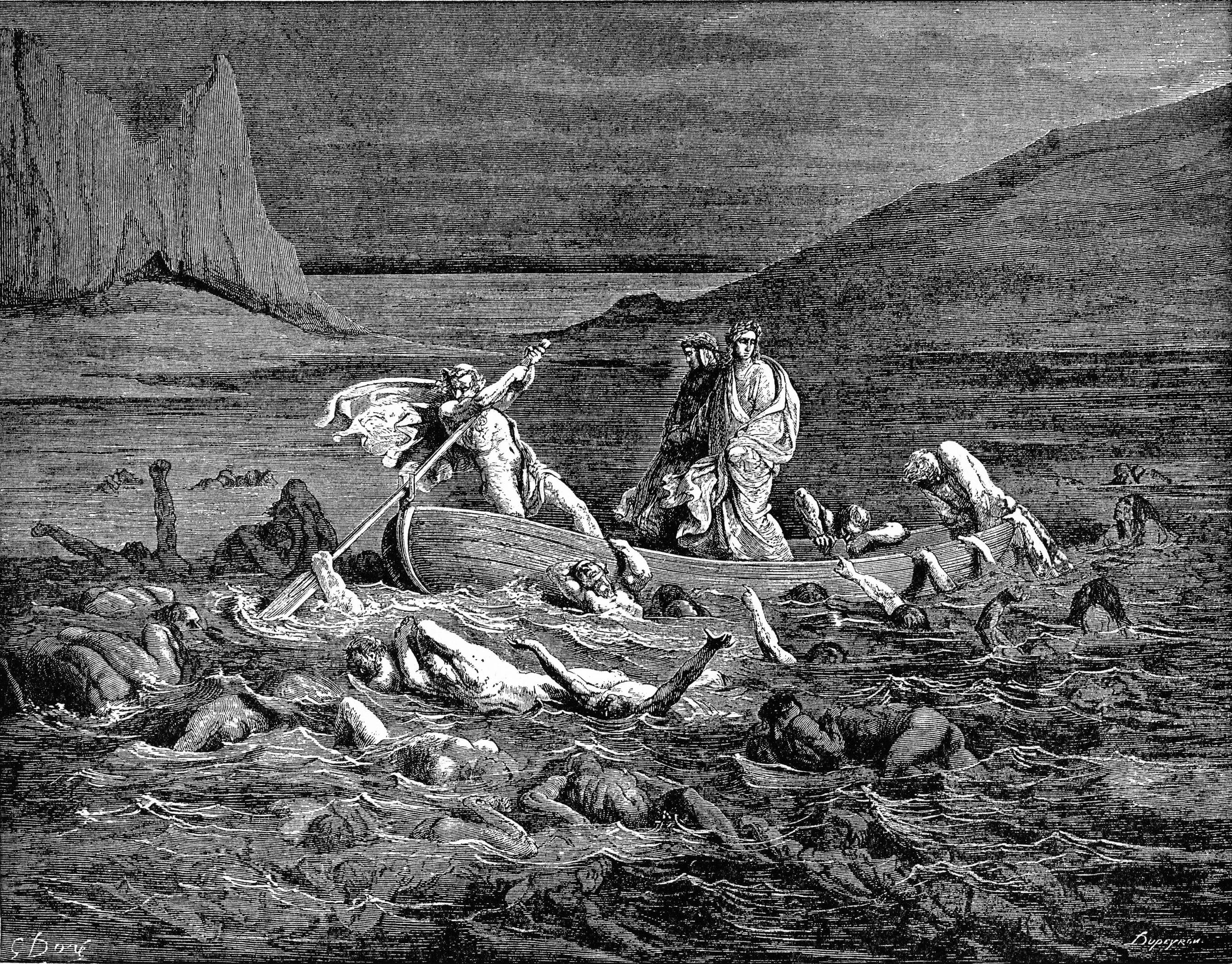 High resolution scan of engraving by Gustave Doré illustrating Canto VIII of Divine Comedy, Inferno, by Dante Alighieri. Caption: Phlegyas ferries Dante across the Styx